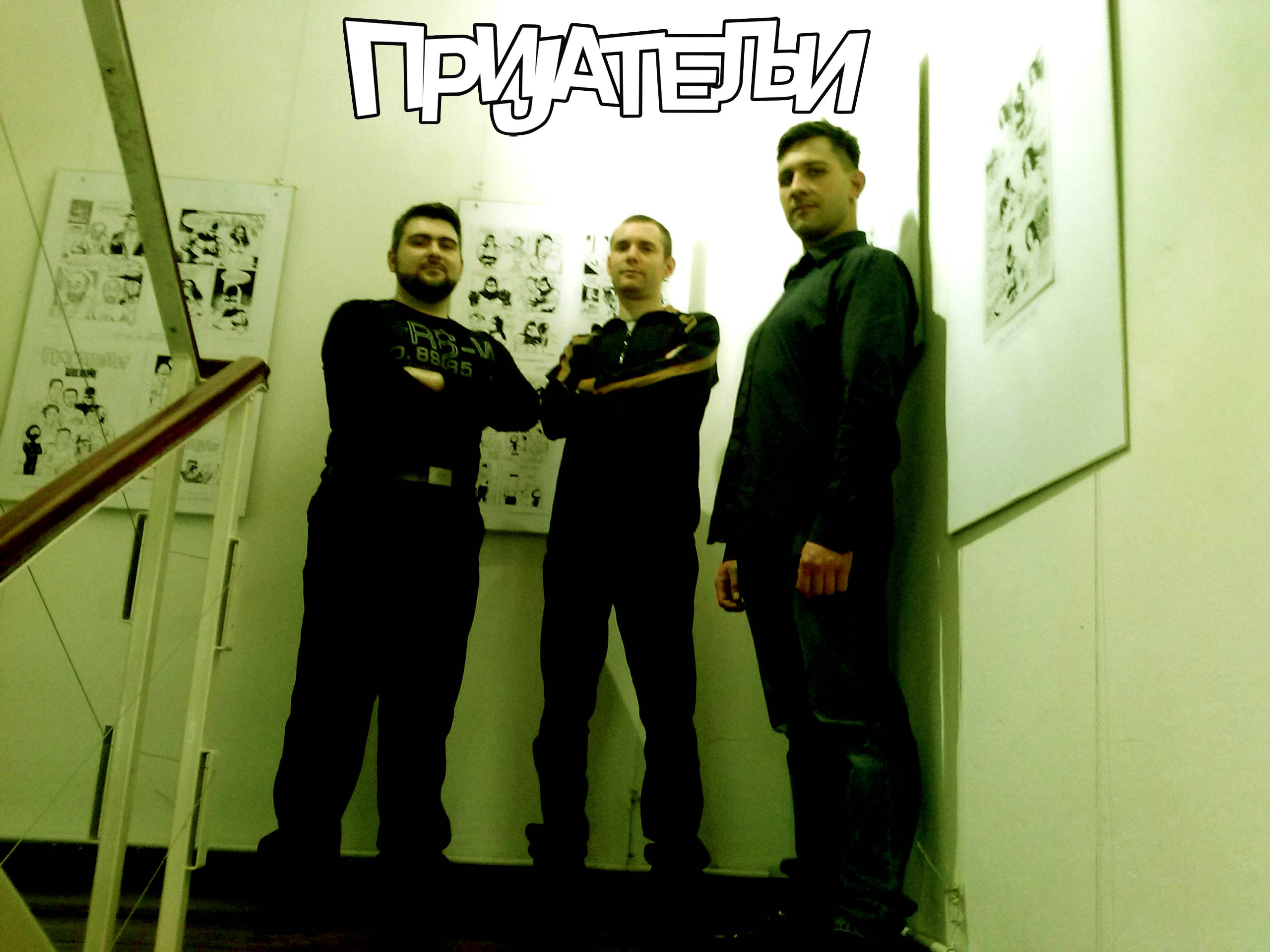 Promo picture of the authors of the serial.